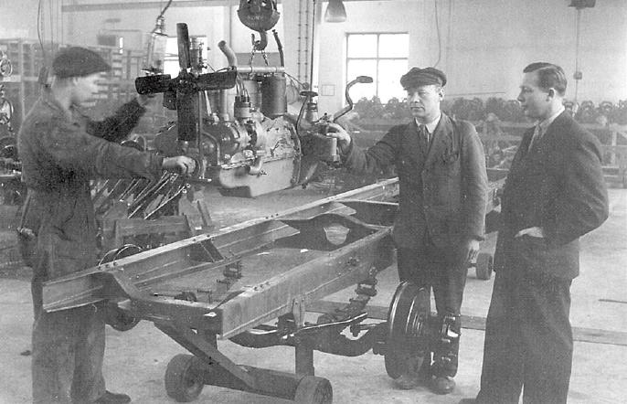 Mounting of a Sisu SA-5 engine on Sisu S-22 (or Vanaja V-48) frame. Right hand side is superintendent Ilmari Karttunen.